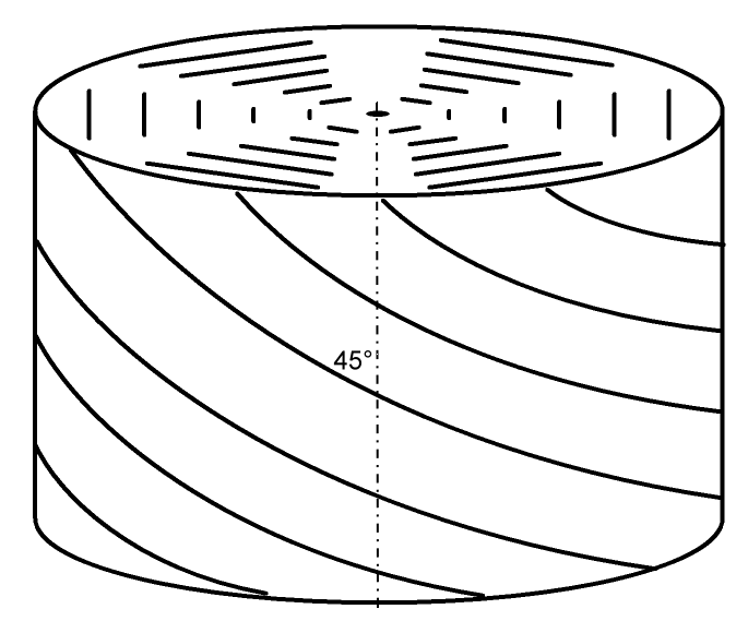 Side view on a double twist cylinder formed by chrial (cholesteric) material. The twist angle on the cylinder surface is supposed to be 45°.